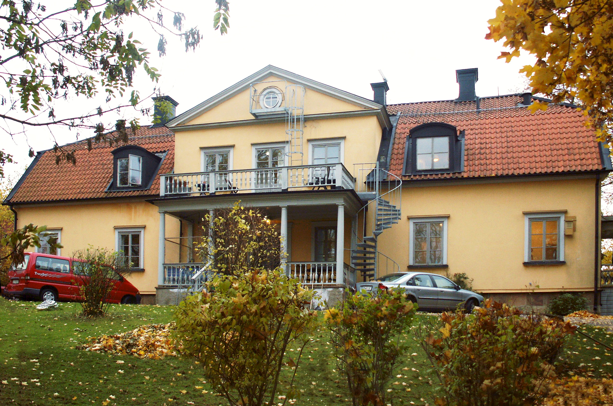 The Västberga gård estate, Stockholm